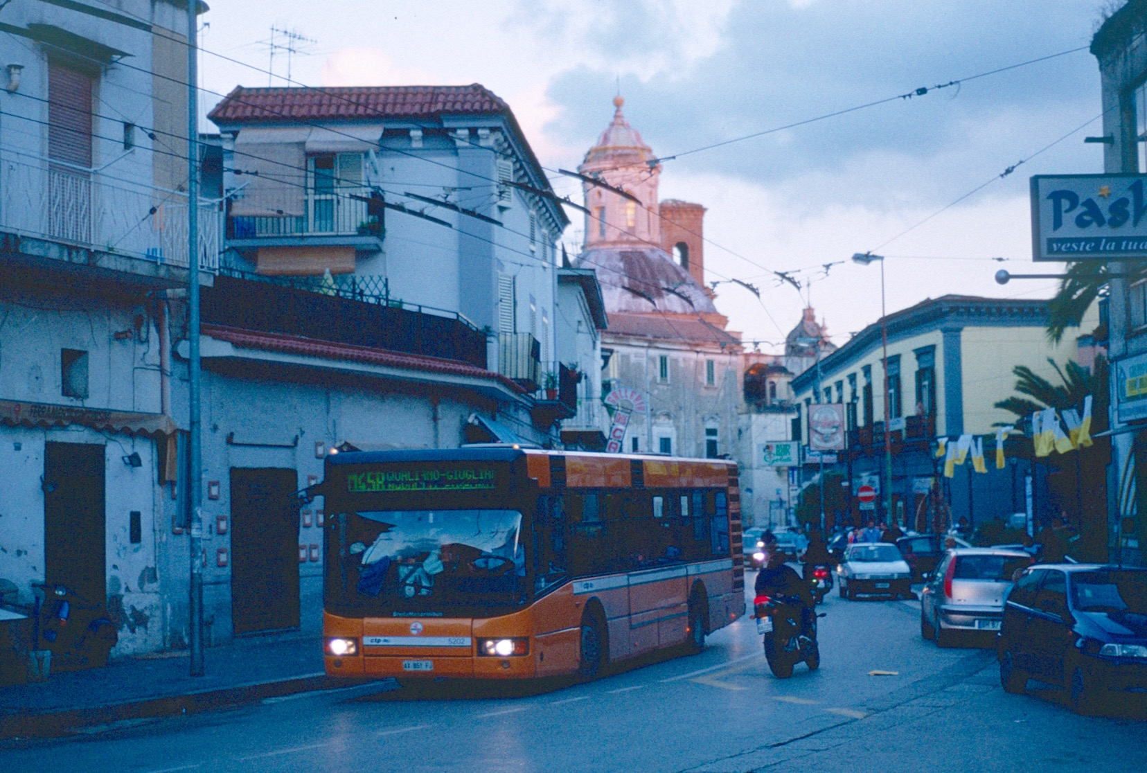 CTP (Compagnia Trasporti Pubblici di Napoli) motorbus 5202 northbound on Via Roma just north of Piazza Santo Stefano in Melito di Napoli, in service on route M45R. Bus 5202 is a BredaMenarinibus M240NS, built circa the late 1990s or early 2000s.